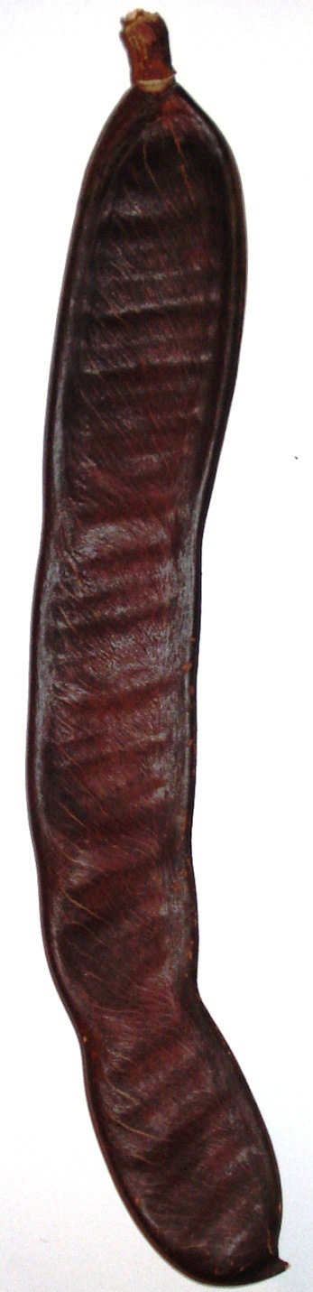 Flamboyant - Delonix regia - pod (approx. 0,35 m length)